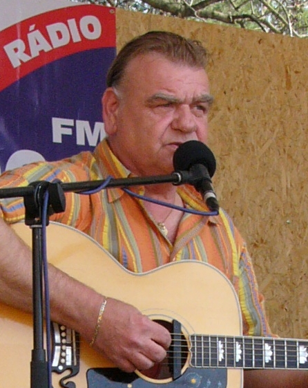 František Nedvěd in Olomouc, Czechia (April 2006).